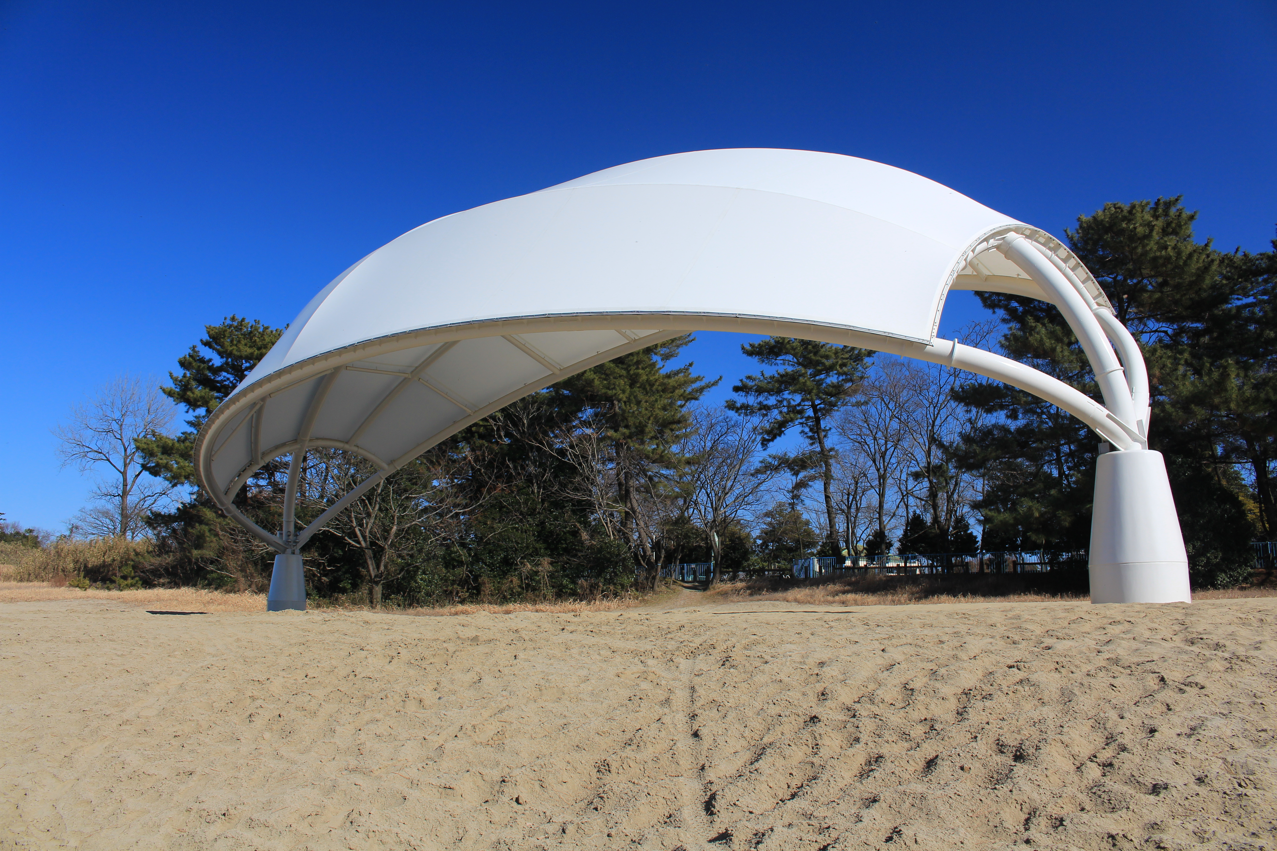 Sobue Sand Dunes in Inazawa, Aichi prefecture, Japan.